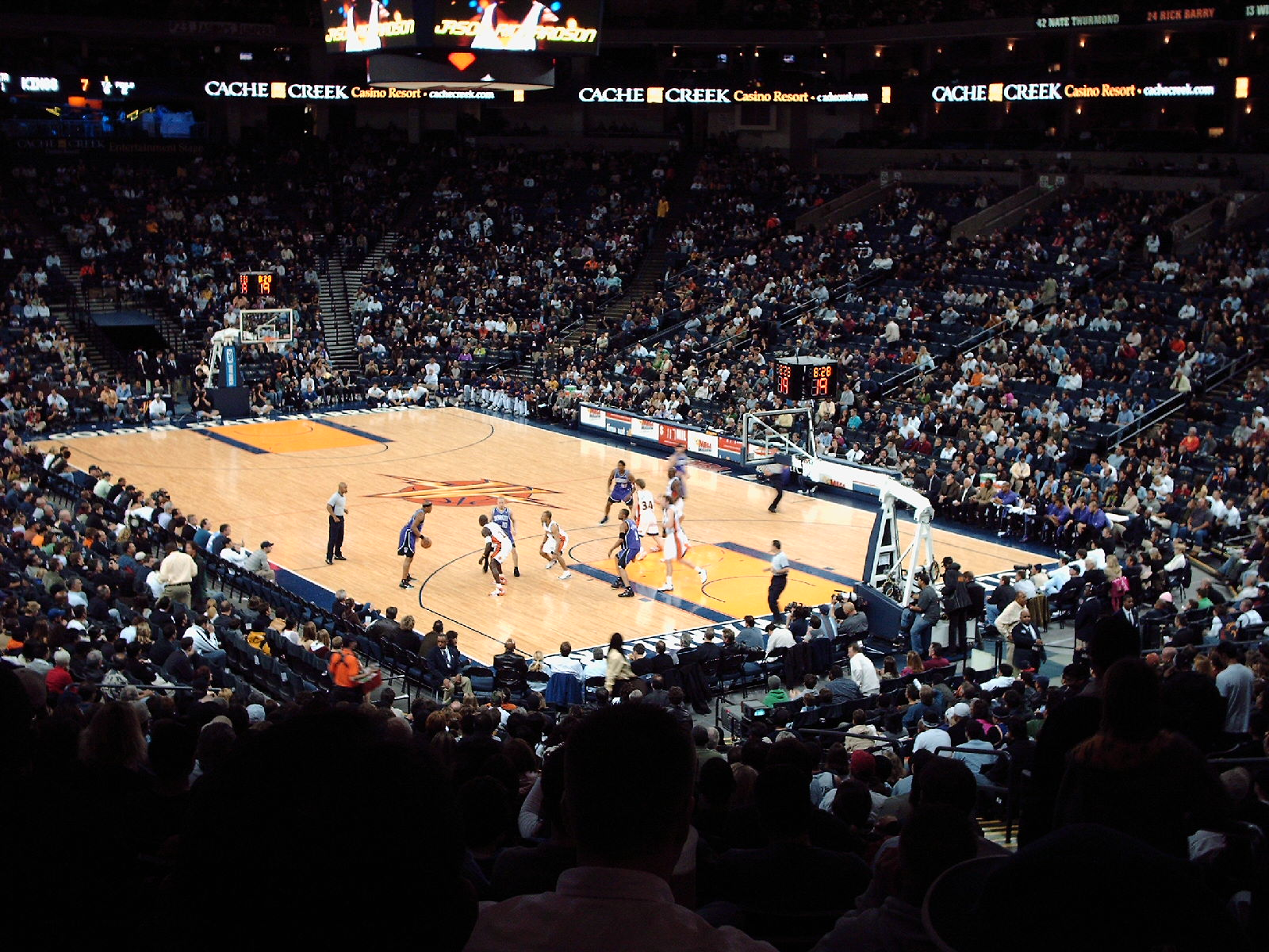 Photo by Greek-a-fella. This photo may be distributed as long as the author is mentioned. Photo taken on March 31, 2006. Sacramento Kings vs. Golden State Warriors.